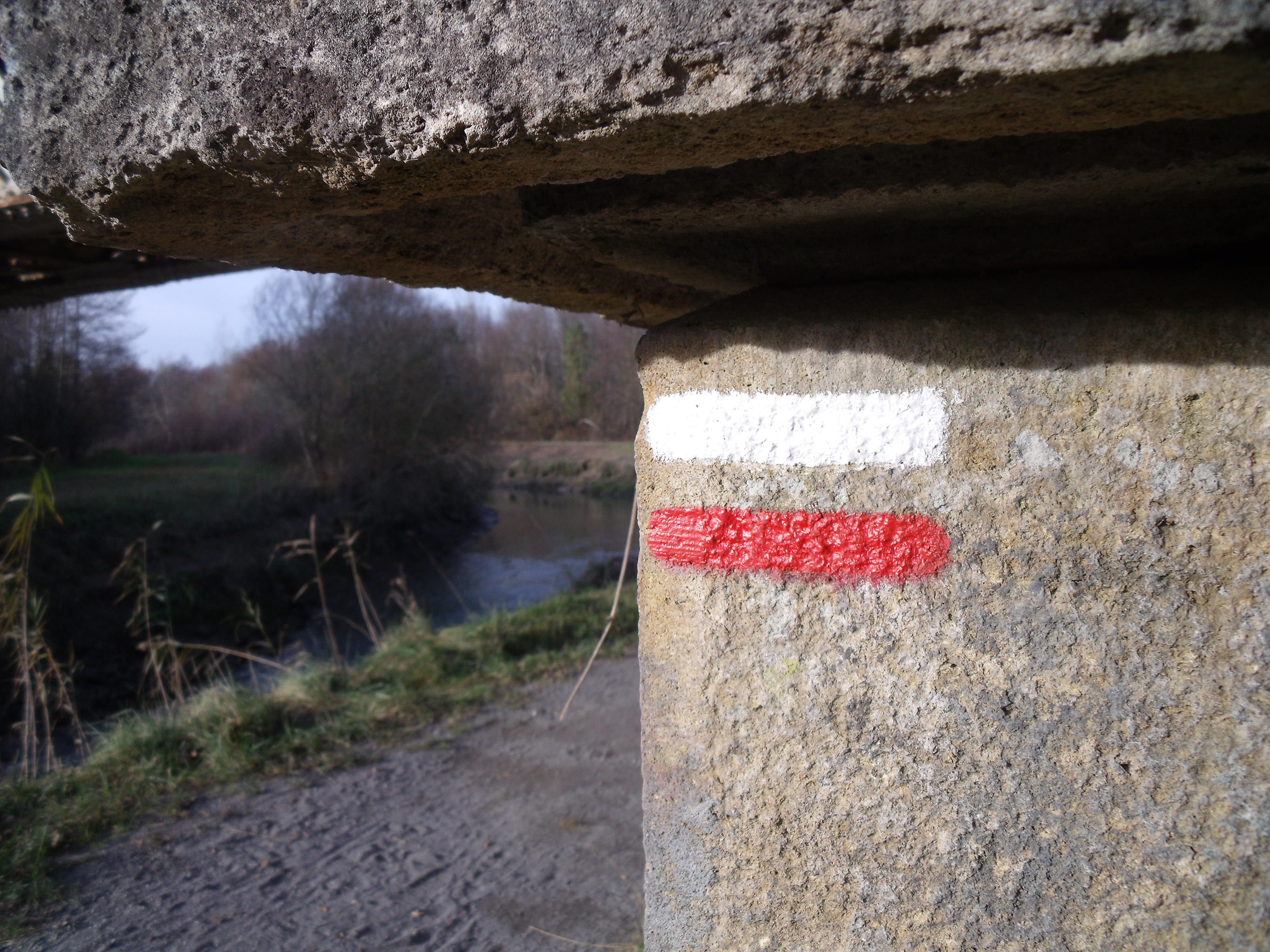 GR 8 at Urcuit train line bridge, Pyrénées-Atlantiques, France.